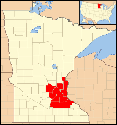 Map of the Catholic archdiocese of Saint Paul & Minneapolis in the USA.